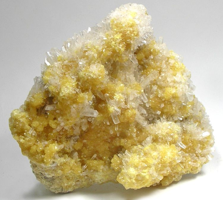 Sulphur, Celestine Locality: Agrigento Province, Sicily, Italy (Locality at ) Italian sulfur specimens have become extremely hard to find, as of course they were mined out decades ago, and when have you seen one of this size and magnitude around? This is a huge plate of bright yellow sulfur crystals, with the added attraction of SHARP, GEMMY gemmy celestine crystals growing all over it! These are unusually fine for celestines in this type of combination specimen, as they are generally much more milky-looking. This is a big, bright, happy and now rare SHOWPIECE! 19.2 x 18.5 x 10.6 cm